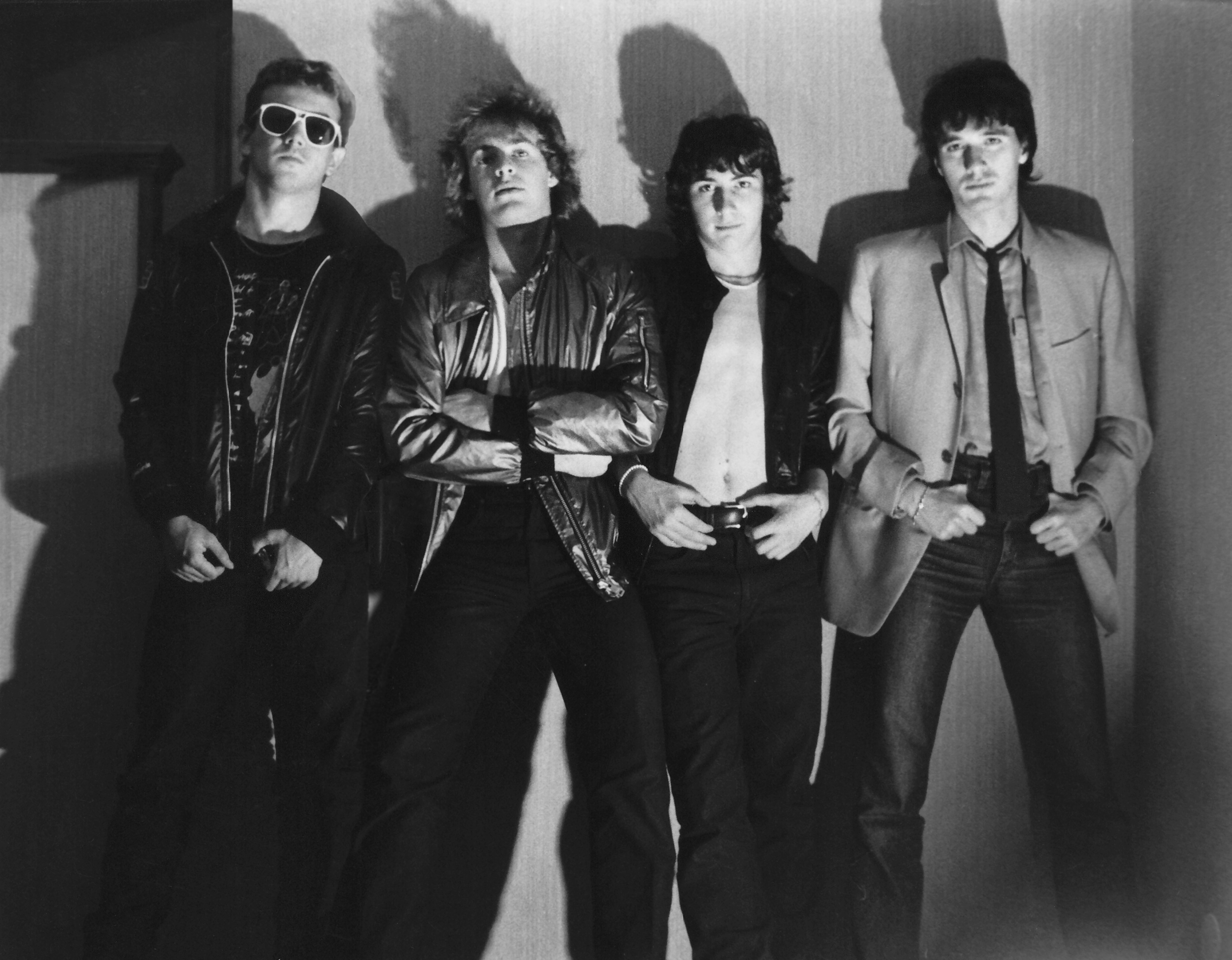 The photo depicts the historical members of the Italian punk band Decibel at the beginning of their career.